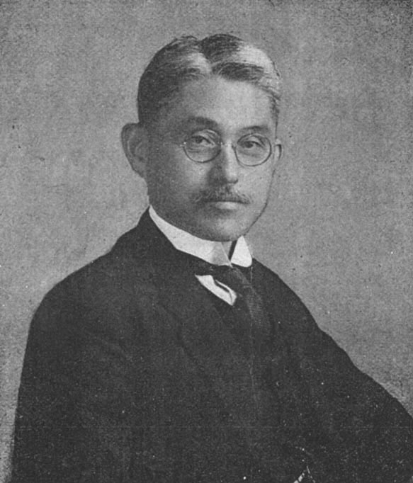 Late Mr, Shintarō Ishida.